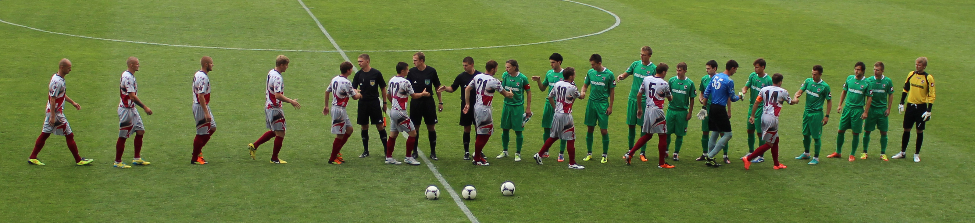 2013/07/14 obolon brovar vs. energy nikolaev